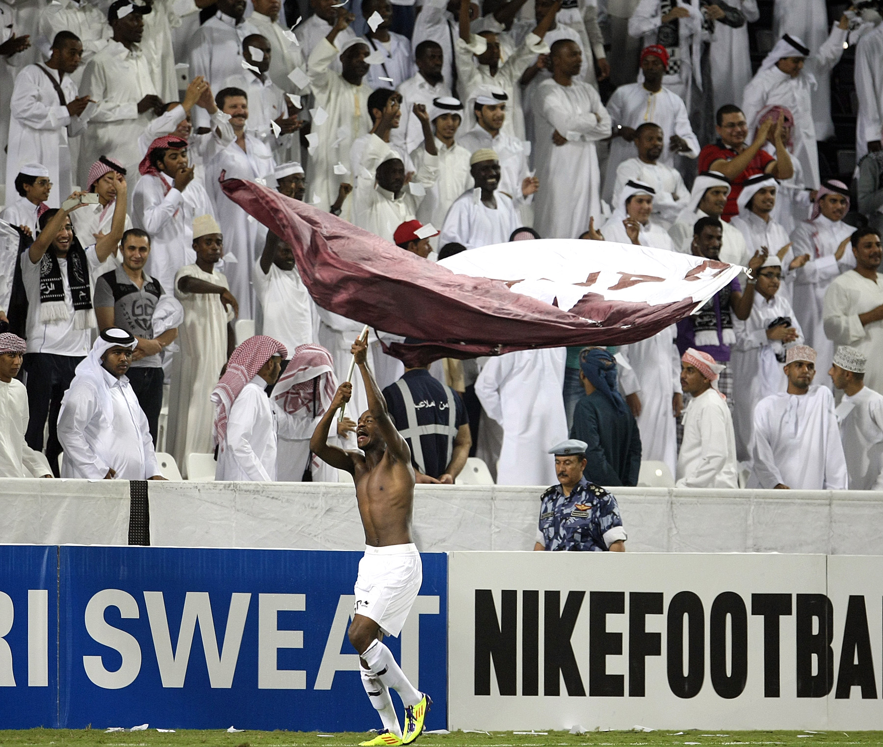 Al Sadd's Abdulkareem Hassan celebrates with a Qatari flag after his side defeated South Korea's Suwon Bluewings in the semifinal of the AFC Champions League. Pic by Mohan